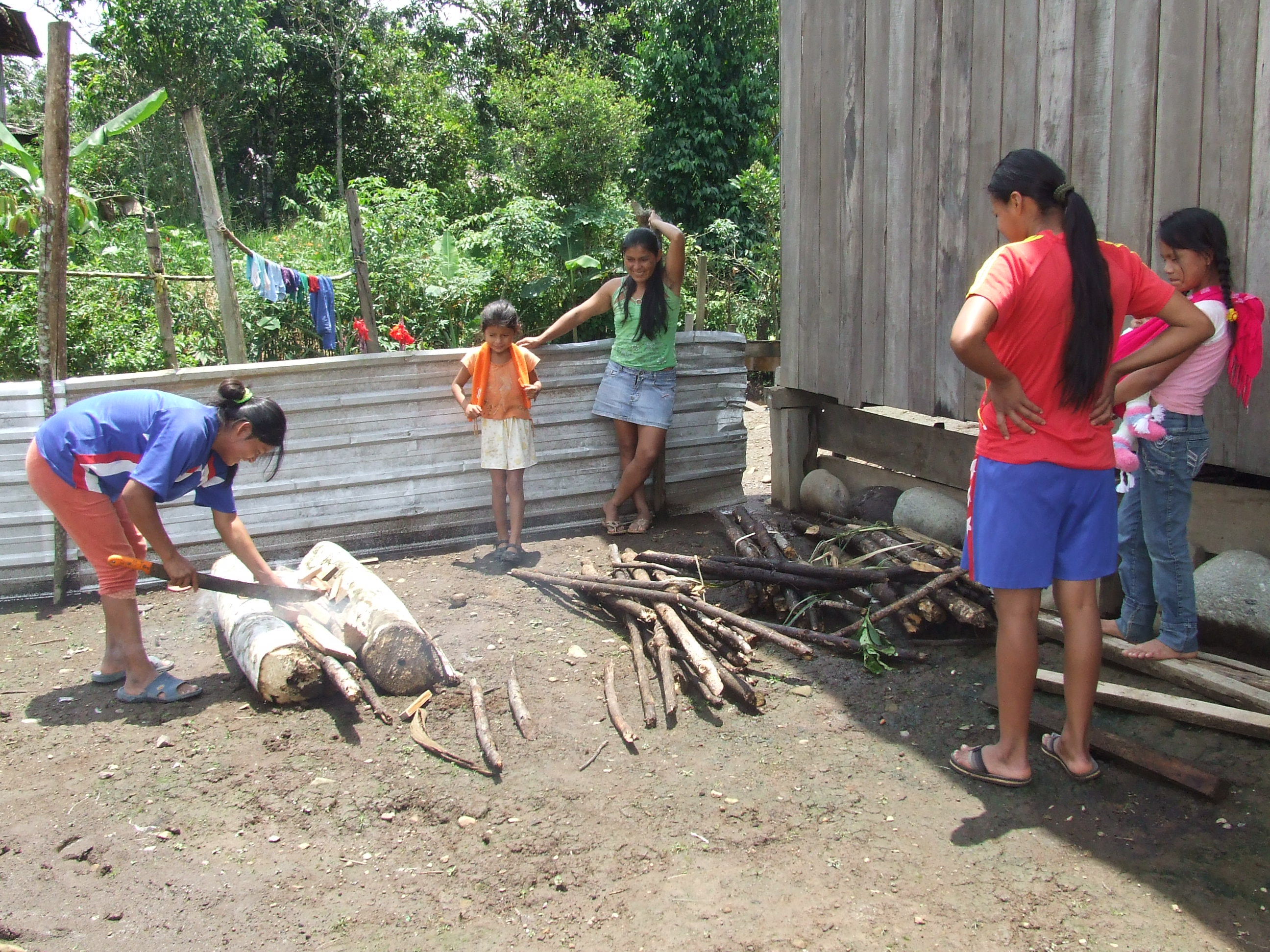 Shuar-Familie bei "Küchenarbeiten", Hochland 2011